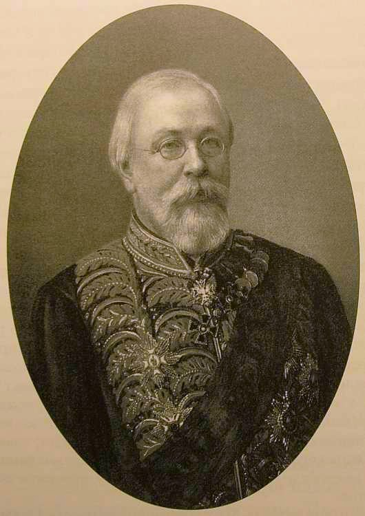 Filippov Terty Ivanovitsch (1825-1899) Ministr of Russia, journalist & folklorist